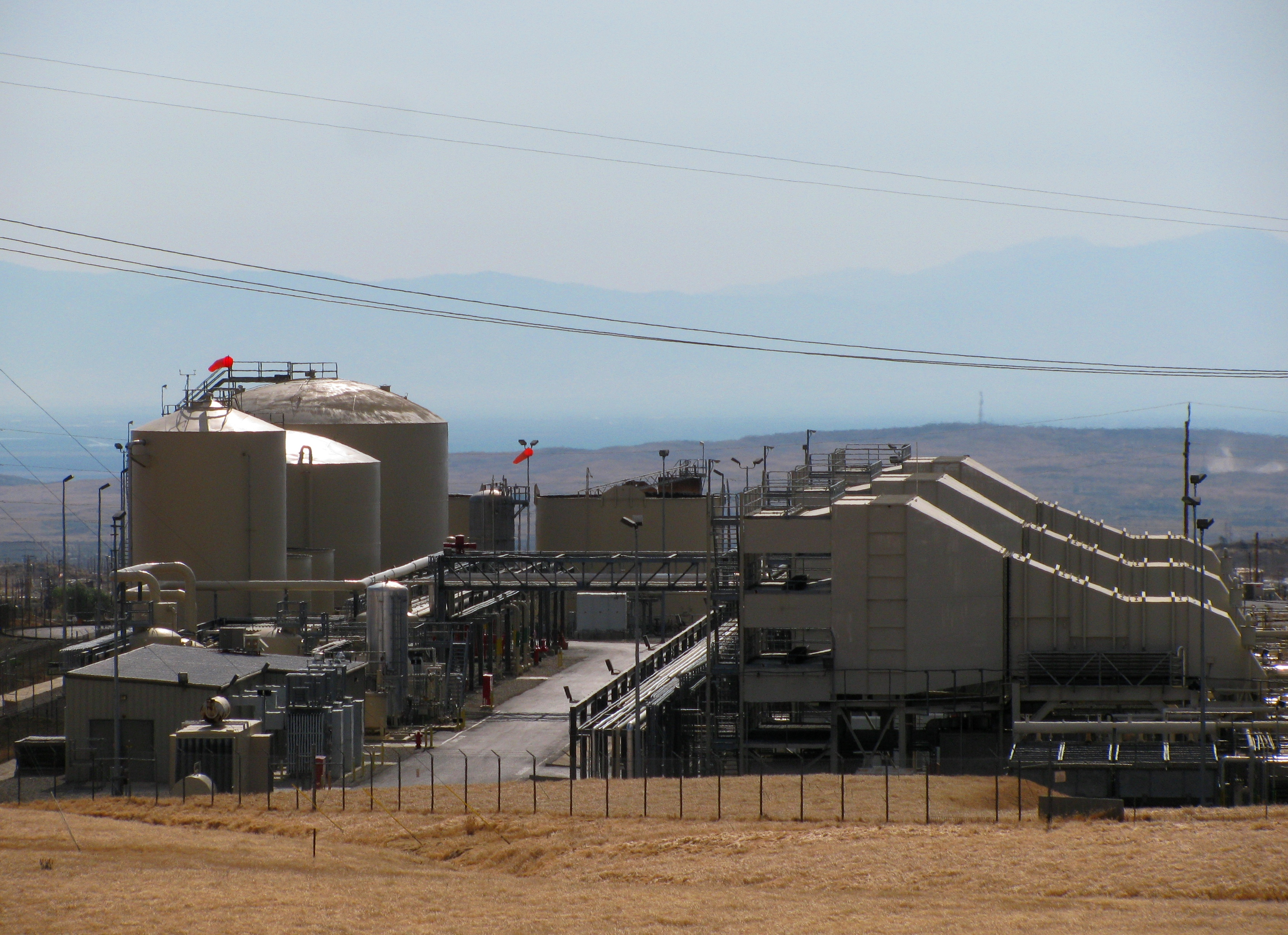 Midway-Sunset Cogeneration Company plant, Midway-Sunset Oil Field, Kern County, CA